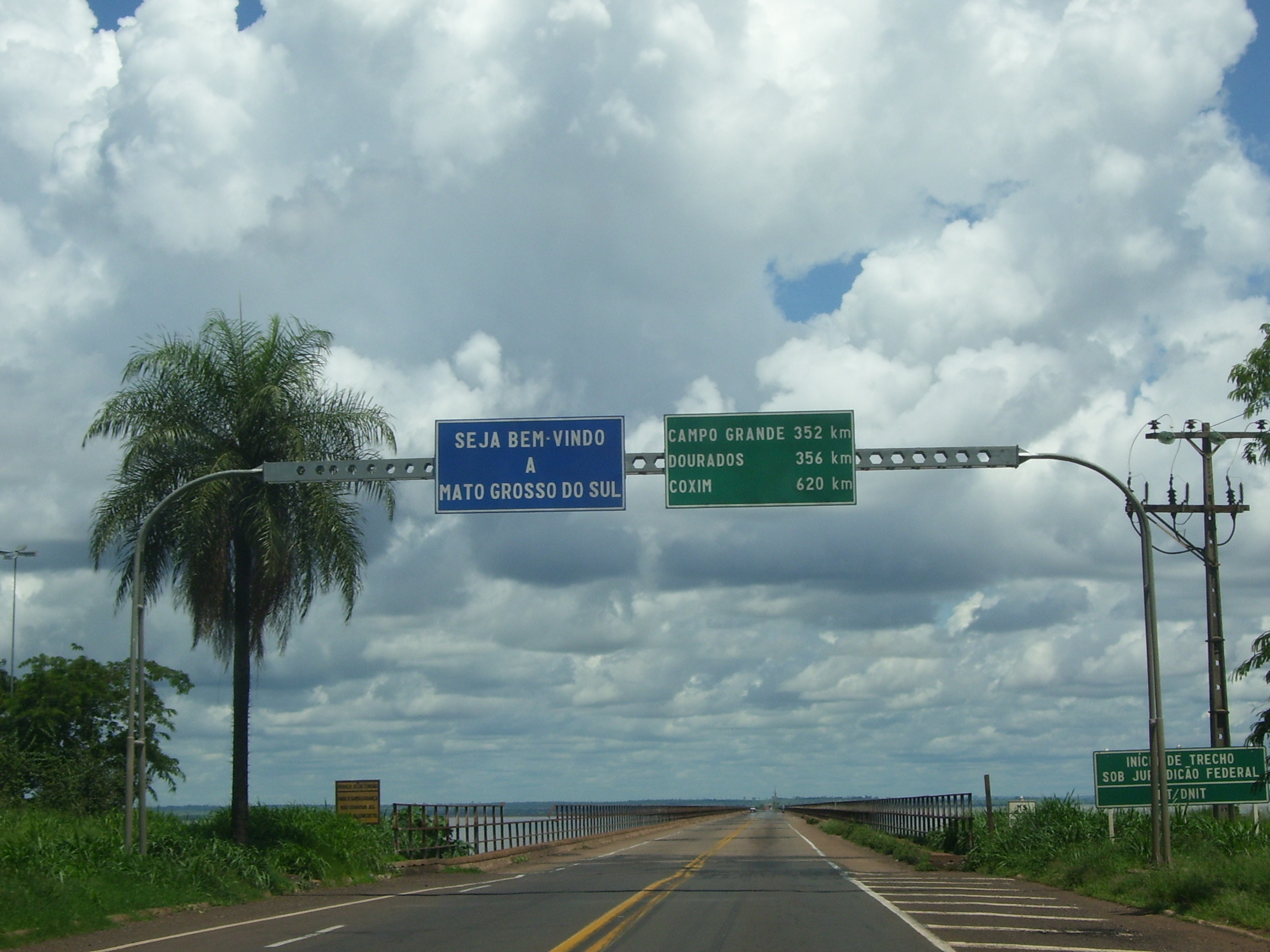 "Maurício Joppert" Bridge, on the Paraná River, verge of the Brazilian states of Mato Grosso do Sul and São Paulo.